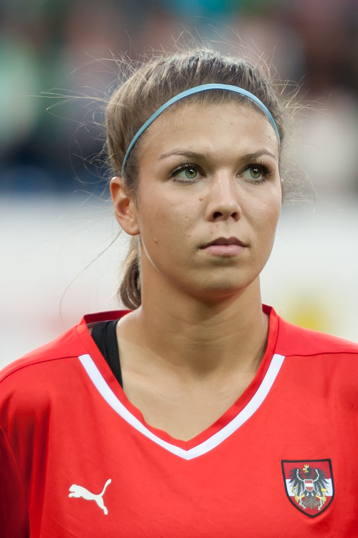 Women's Euro Qualification Austria vs. Wales, 2015-09-22, St. Pölten, Lower Austria